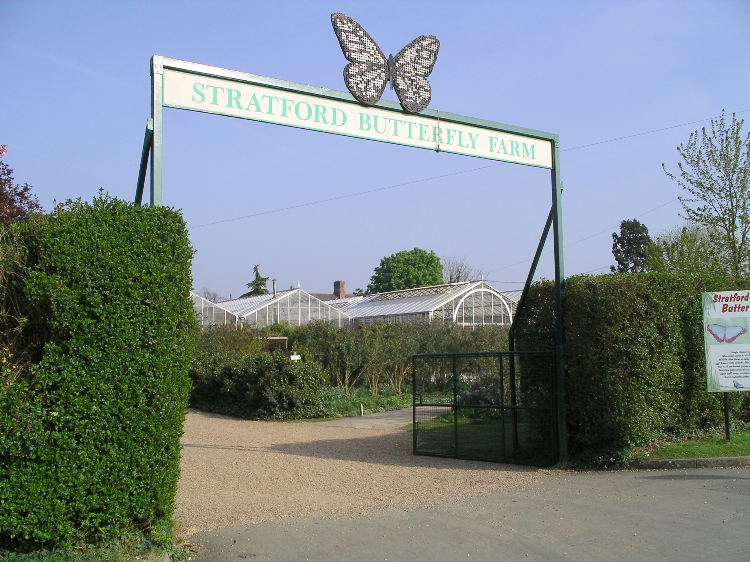 The main gate of Stratford Butterfly Farm, Stratford-upon-Avon, Warwickshire, England.